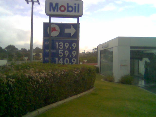 Picture of the Hepburn Avenue (Route 82) side Price Board at the Mobil Quickstop Hepburn Heights Gas Station in Padbury, Western Australia.